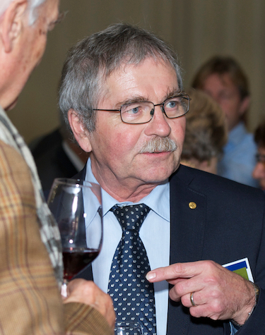 Georg Bednorz at the Memorial Symposium for Heinrich Rohrer at ETH Zurich on 31 October 2013 © D-PHYS/Heidi Hostettler